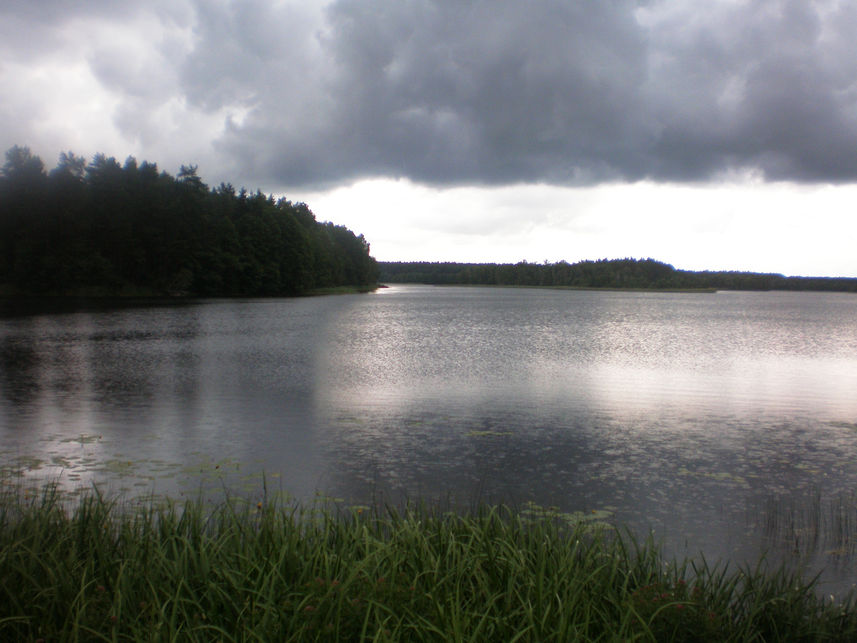 Baluošas Lake in Ignalina district